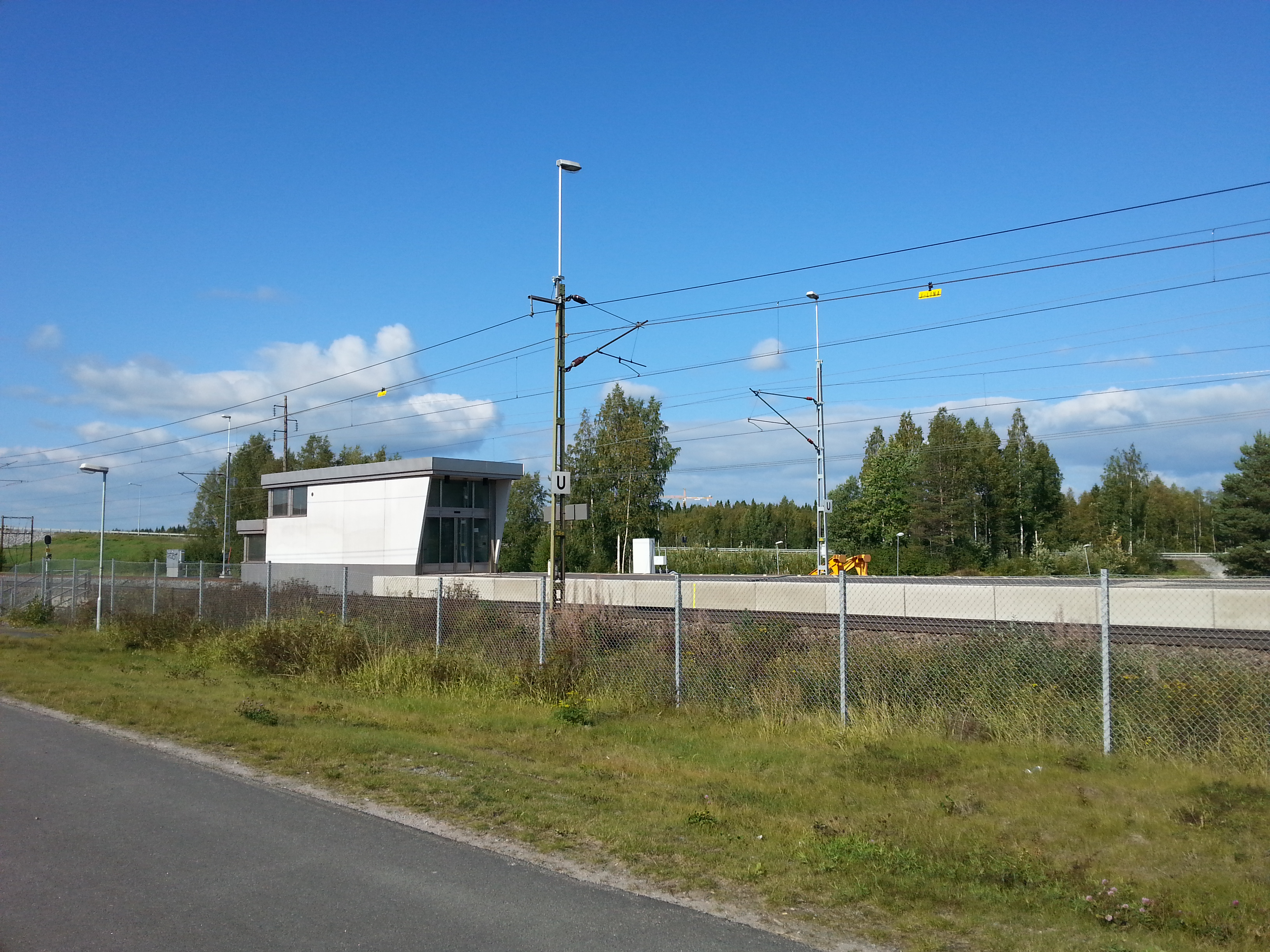 Notviken Station